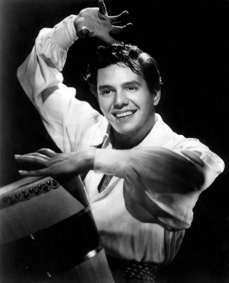 Publicity photo of Desi Arnaz.